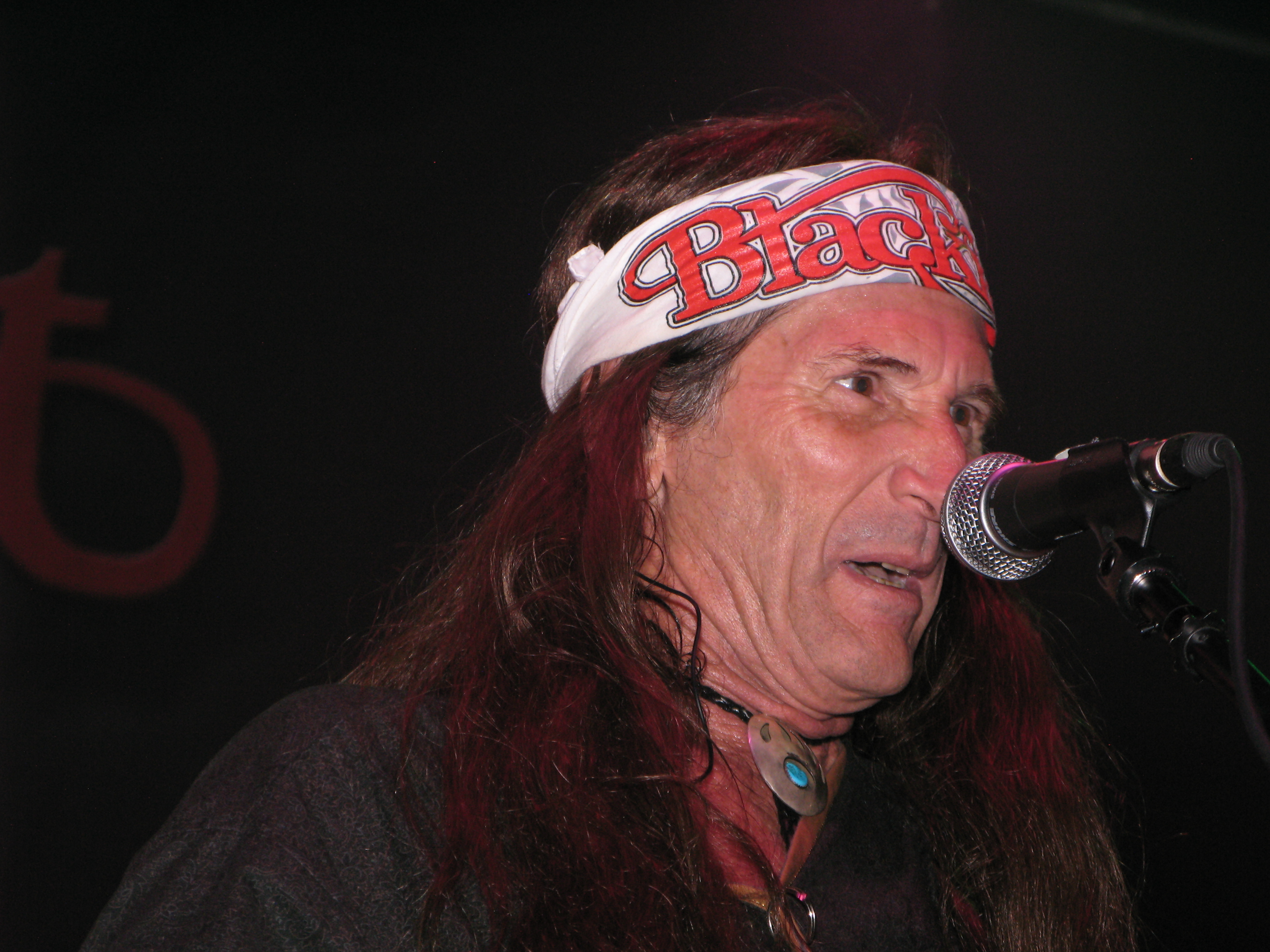 Greg T. Walker, bassist of Blackfoot and former member of Lynyrd Skynyrd, performing live at Penns Peak (2008).